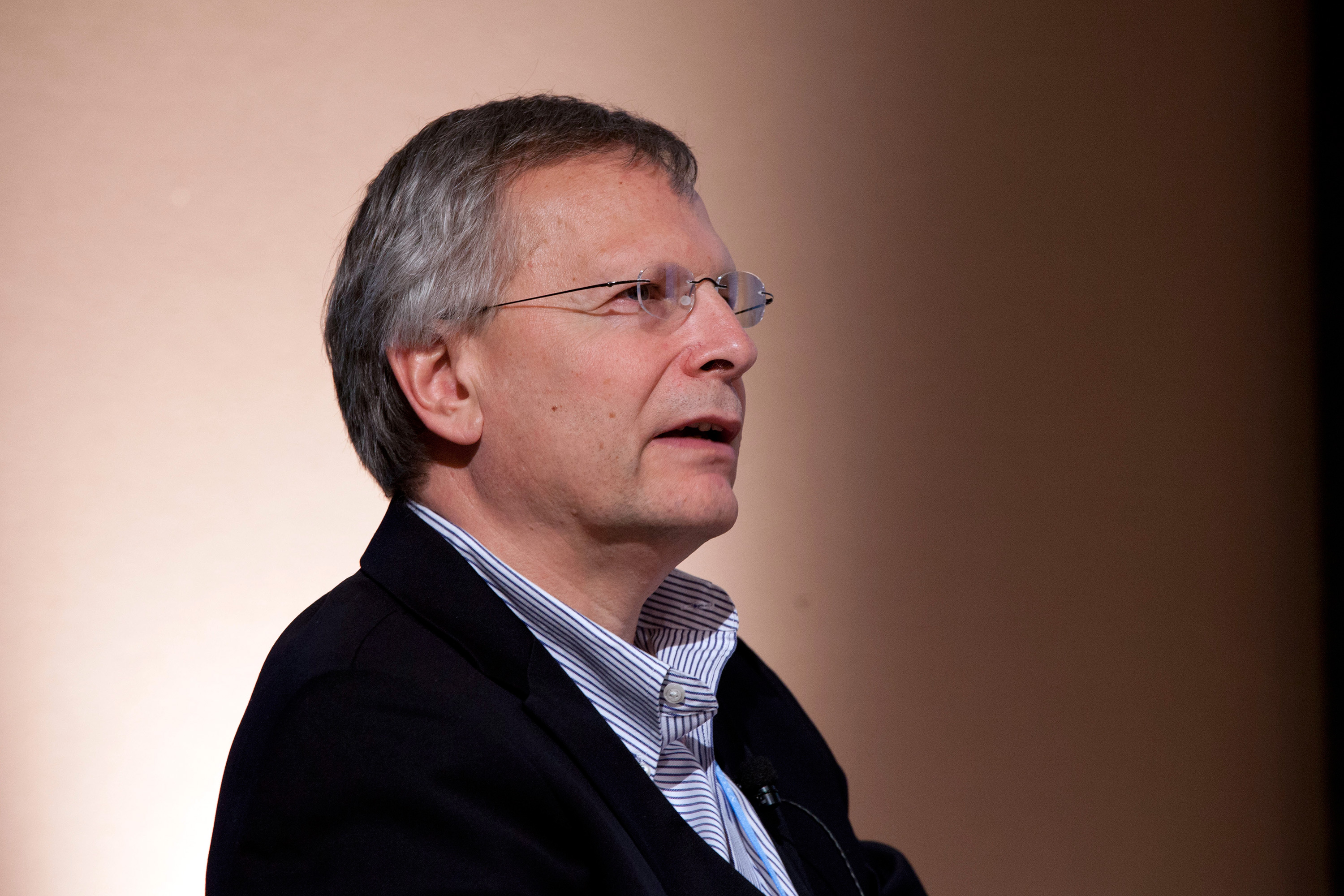 Turkish economist and Rafiq Hariri Professor of International Political Economy at the John F. Kennedy School of Government, Harvard University, teaching in the School's MPA/ID Program.